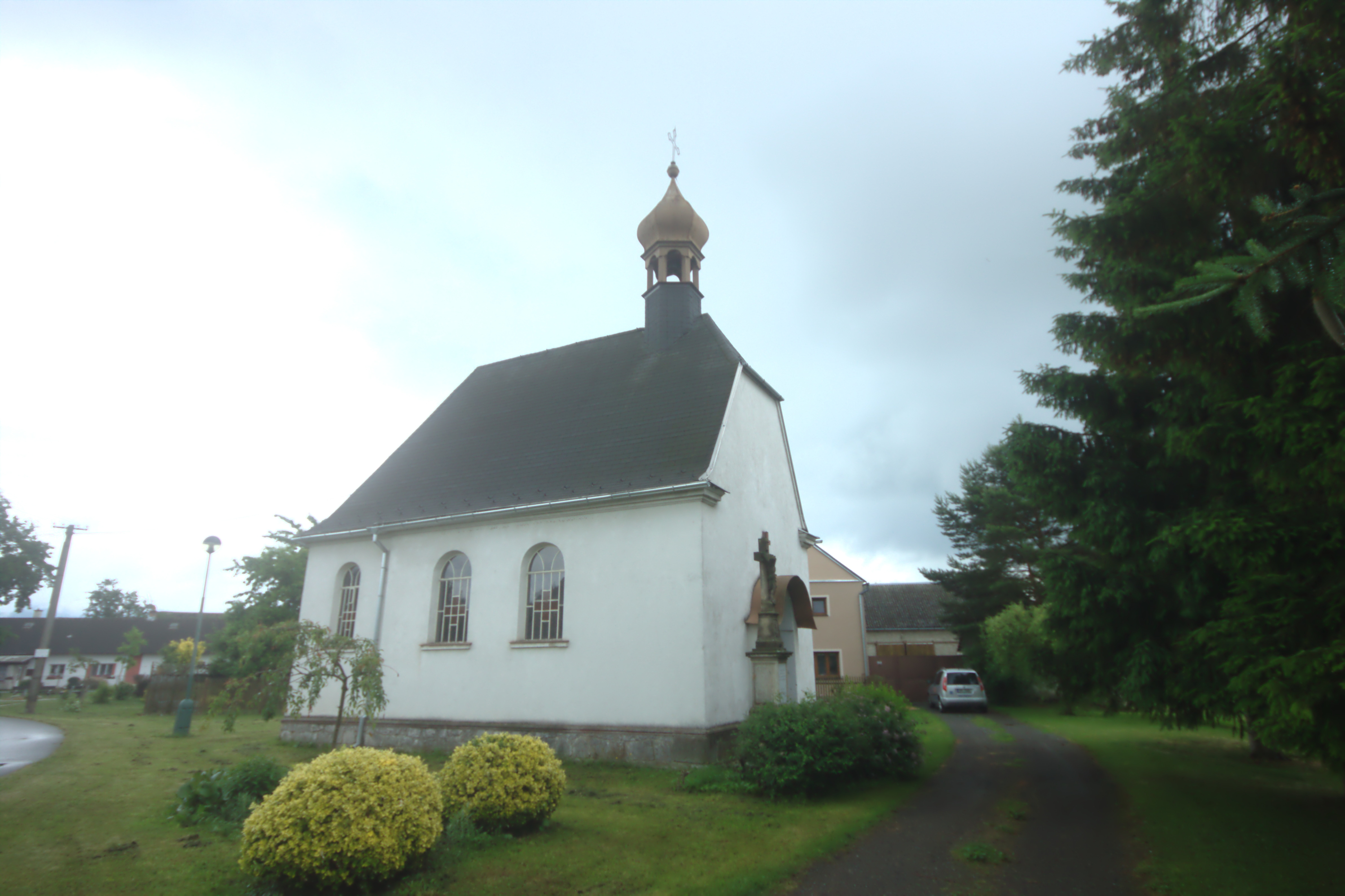 A church in the village of Haukovice, Olomouc Region, CZ